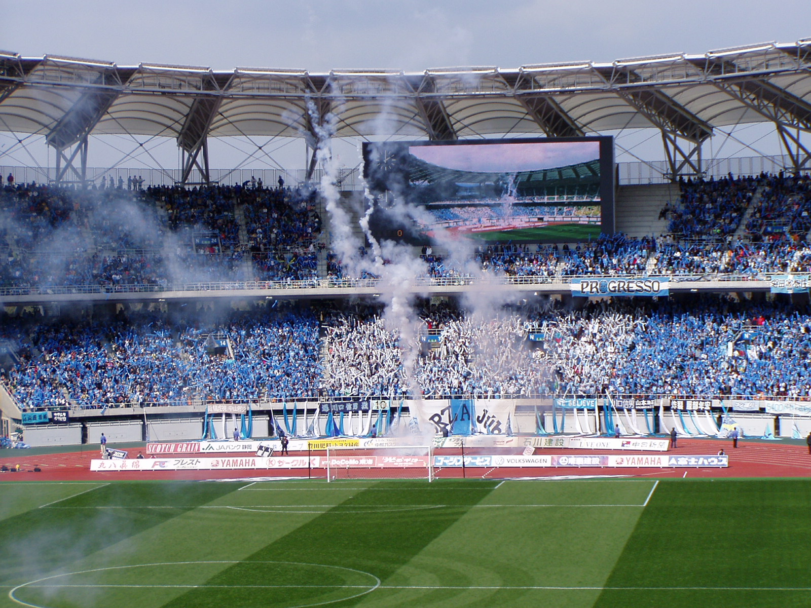 Jubilo-Iwata Vs Yokohama-F.Marinos 2003